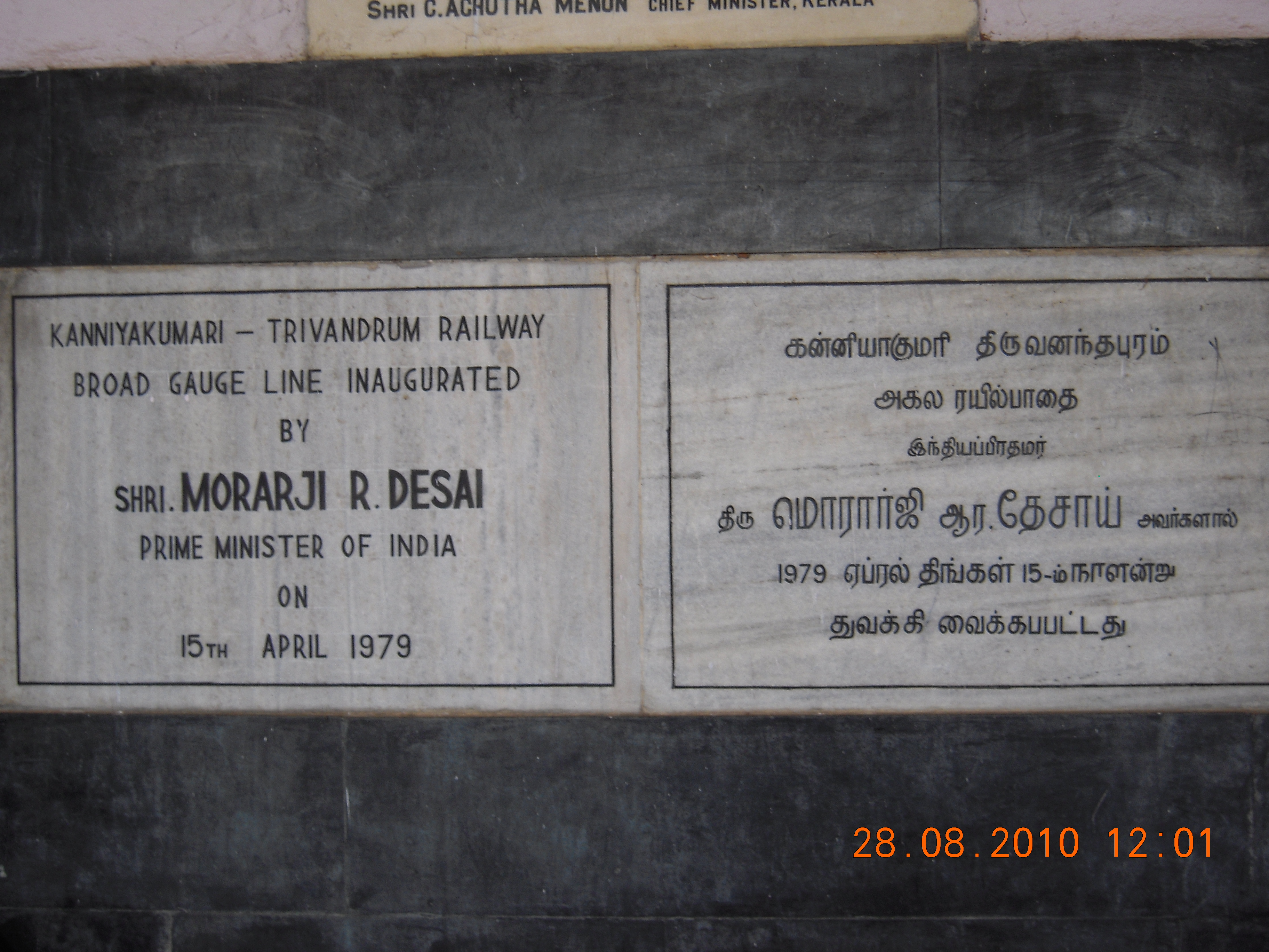 Kanyakumari - Trivandrum Railway Line inaugural function details